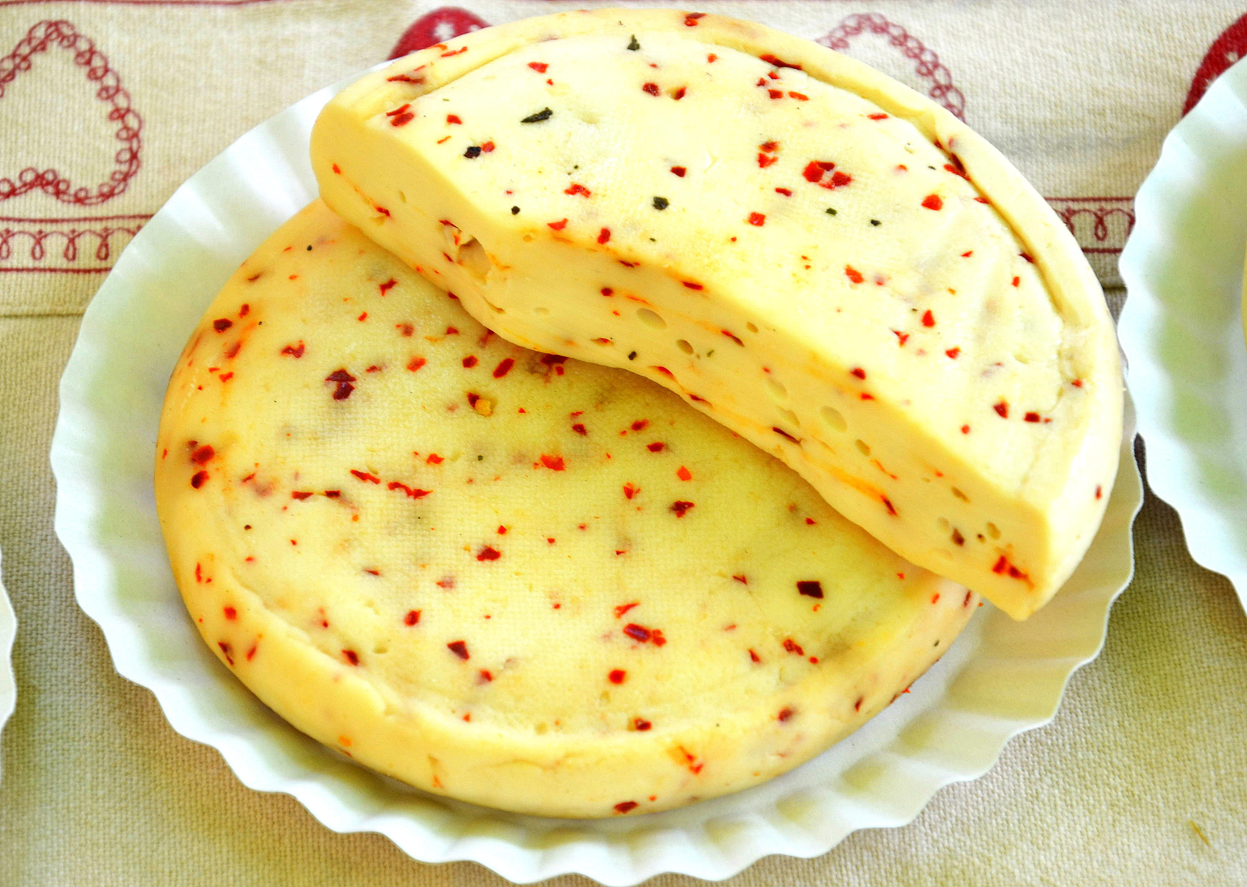 Goat's-milk cheeses from Poland